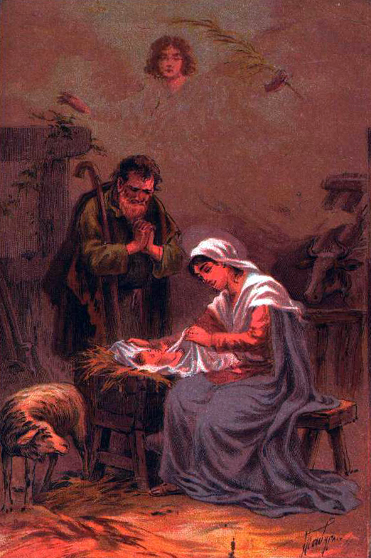 Christmas, postcard by Vladimir Taburin